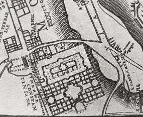 Bath of Constantine, on a map of Rome C16